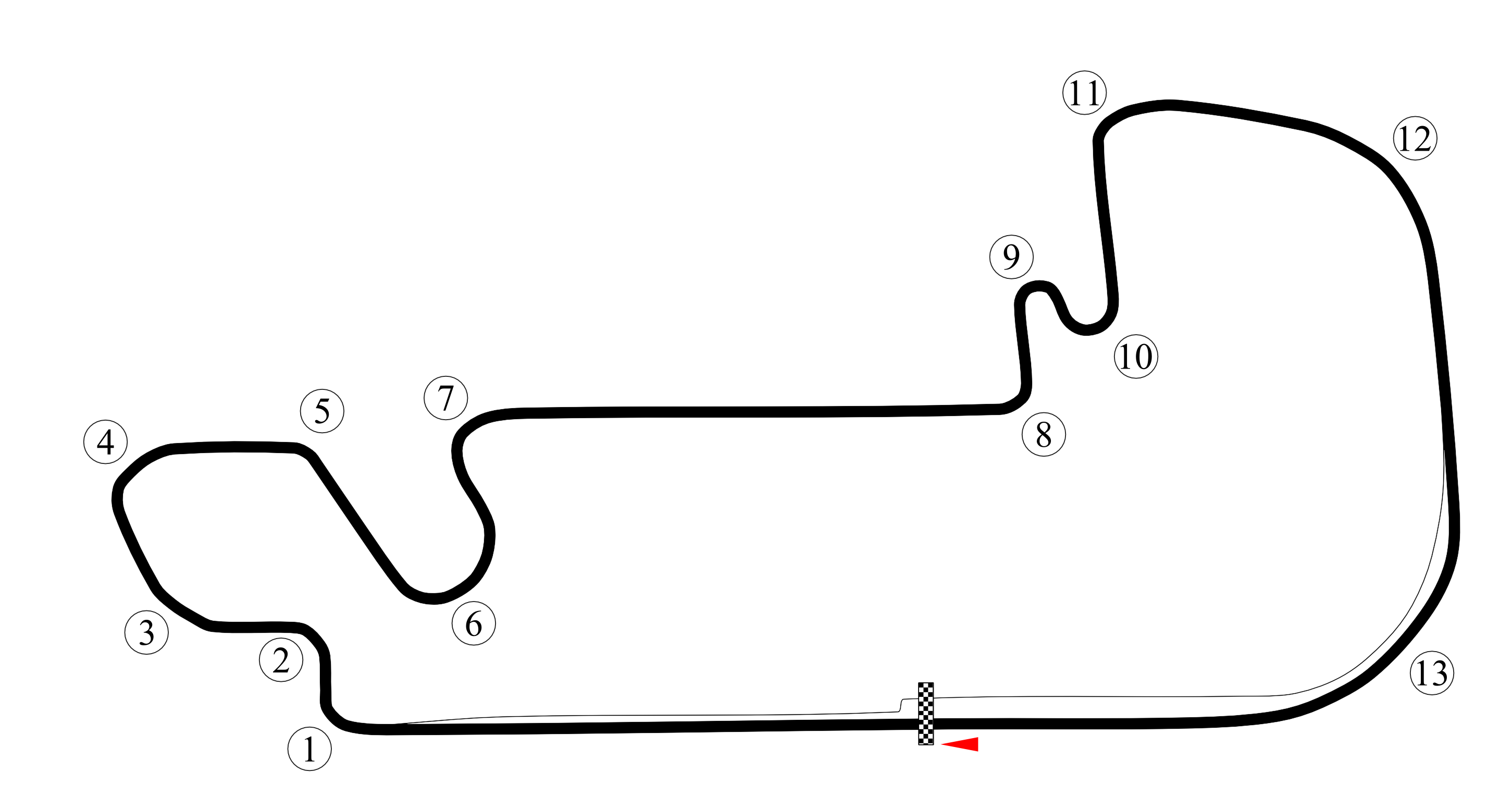 Map of the road course of Indianapolis Motor Speedway. This PNG version of Image:Indianapolis Motor Speedway - road course.svg is for those with browsers like IE7 that don't support SVG.